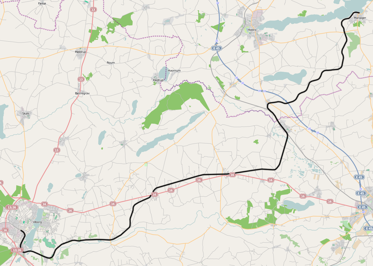 Railway line Mariager - Viborg